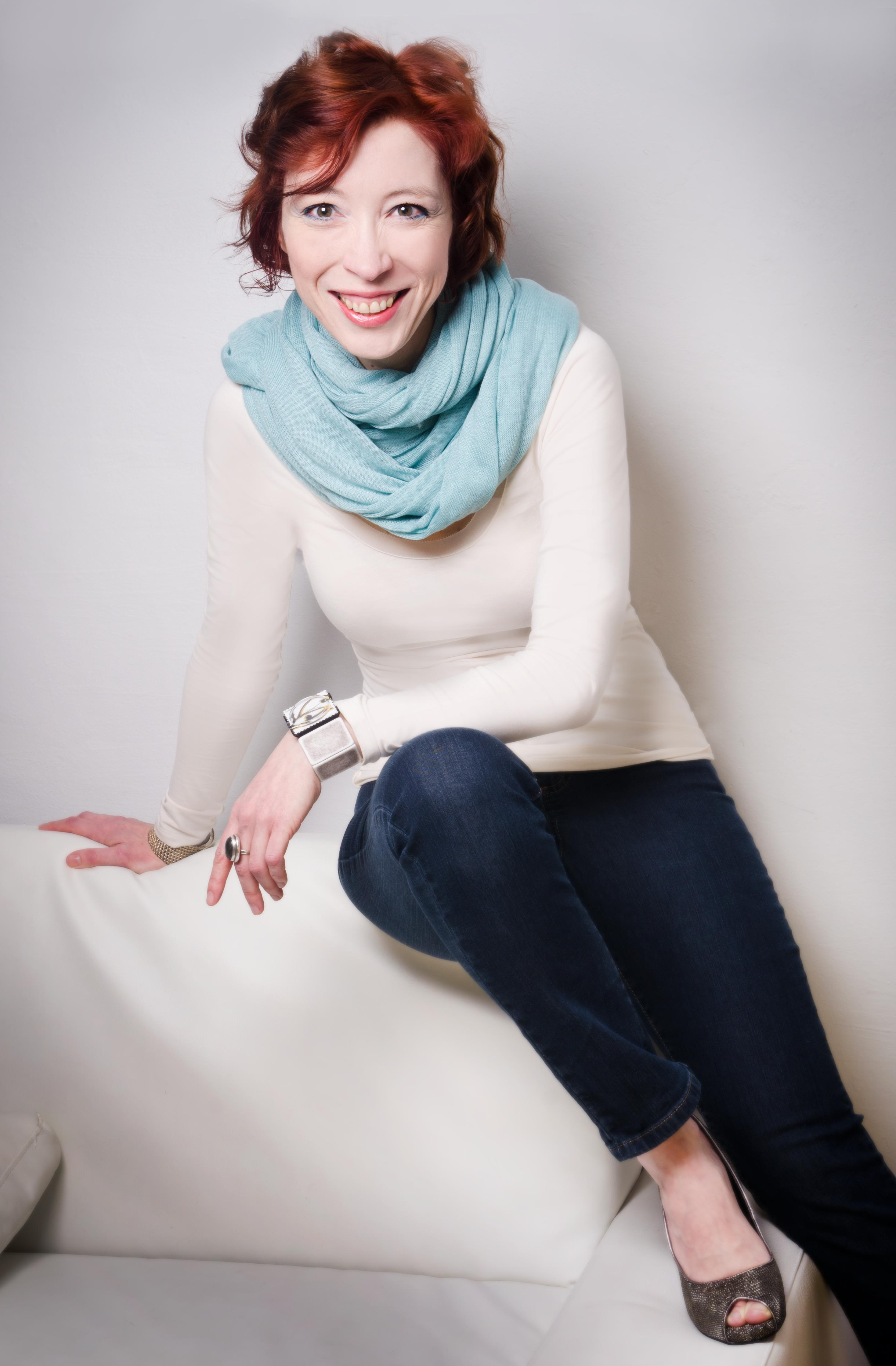 The Czech fantasy author.